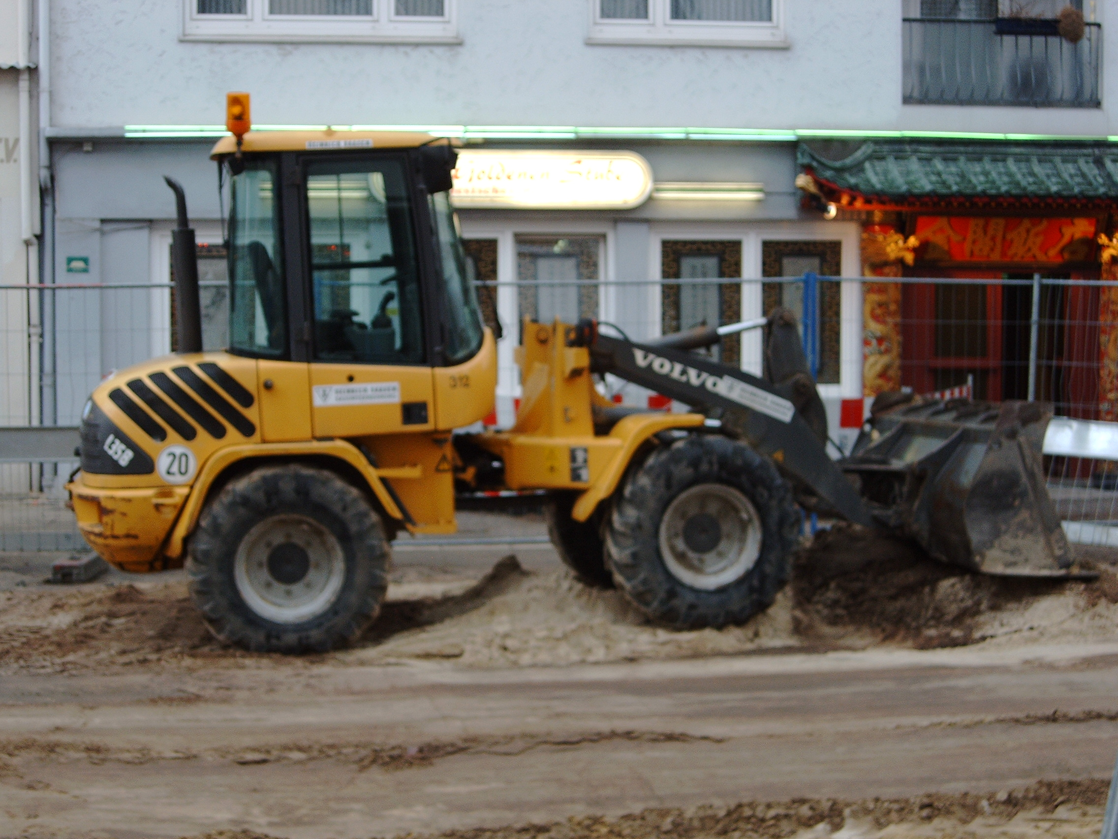 Volvo L35B miniloader